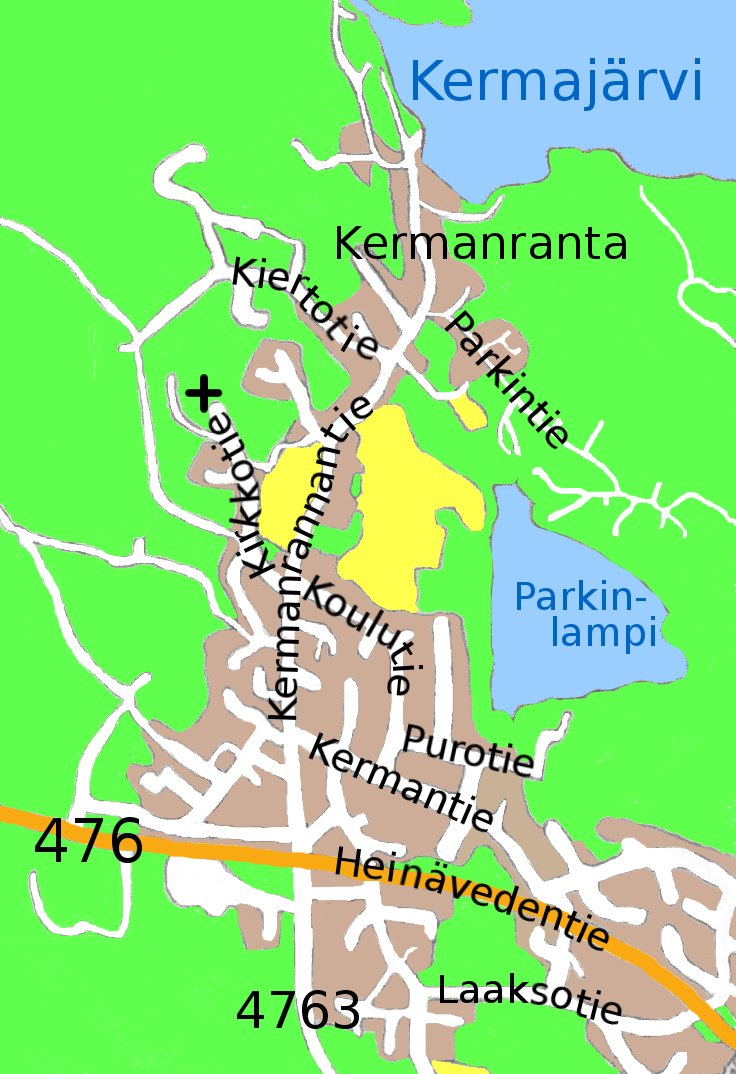 Map of the centre of Heinävesi, Finland